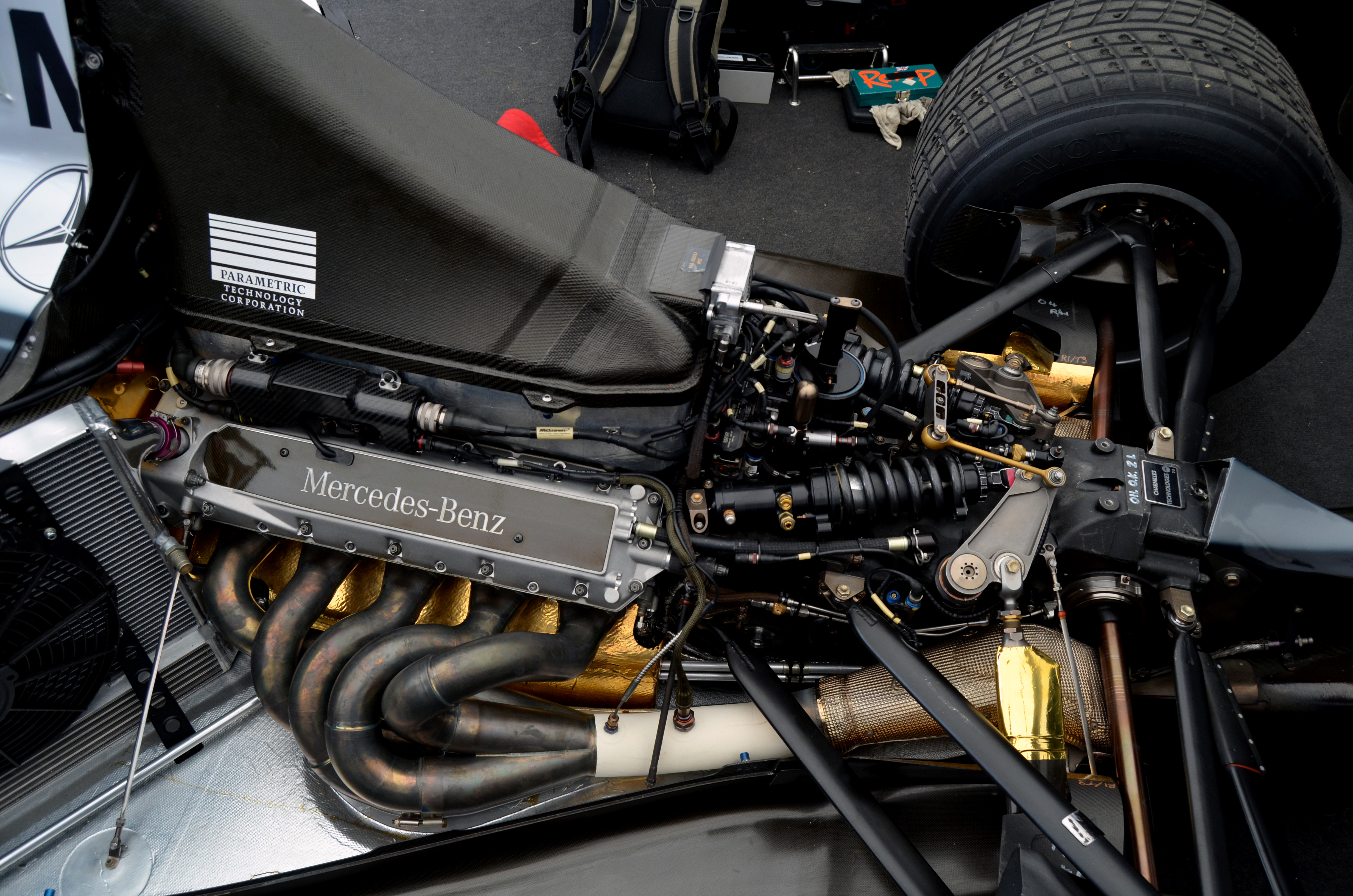 The Mercedes-Benz FO110G engine on the McLaren MP4/13; A look at the insides of the rear end of a McLaren - Mercedes MP4-13 at the 2012 Goodwood Festival of Speed.